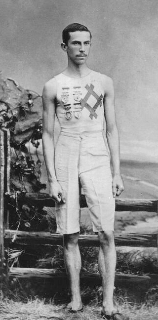 Lon Myers